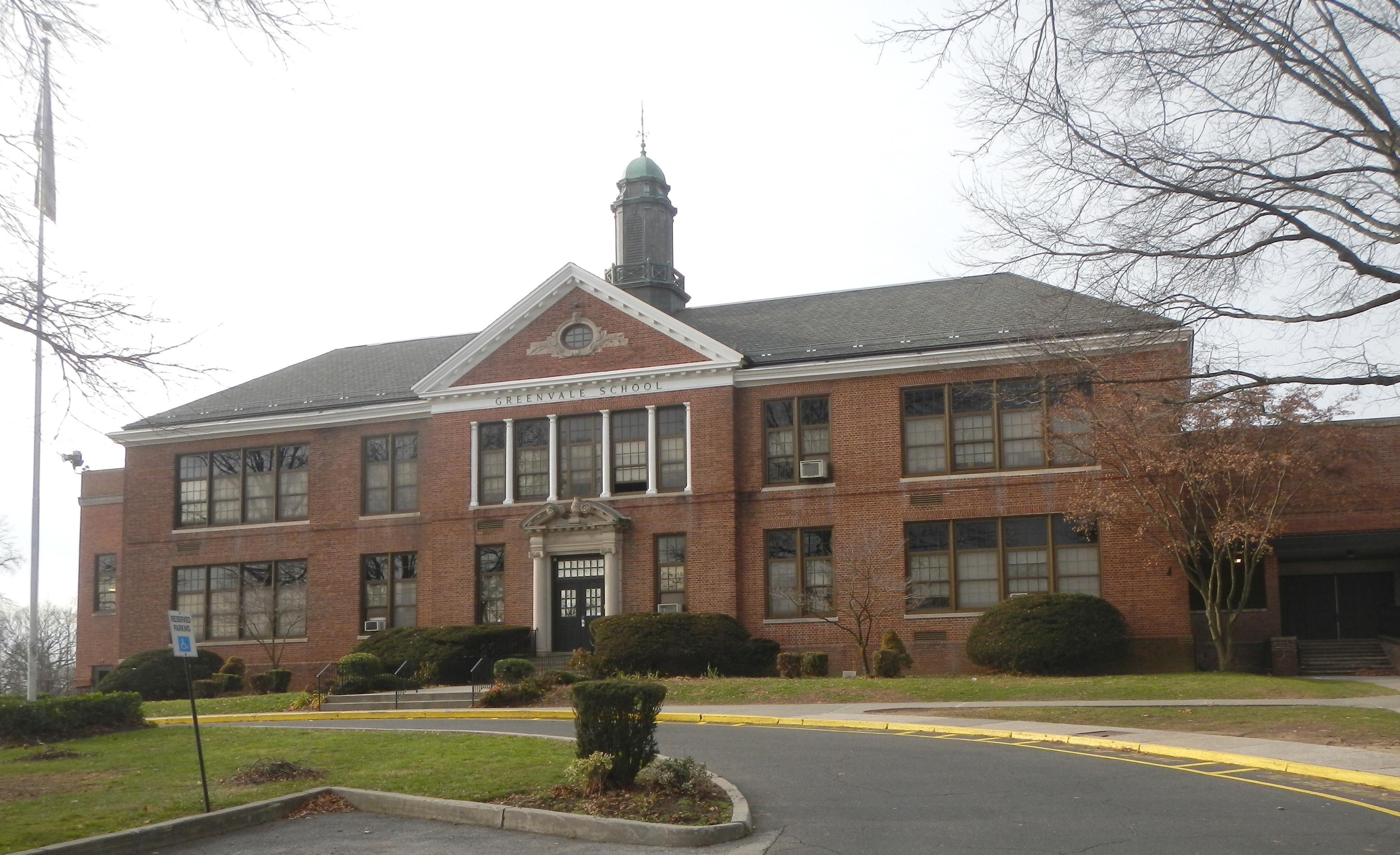 Looking west at school on a cloudy afternoon.